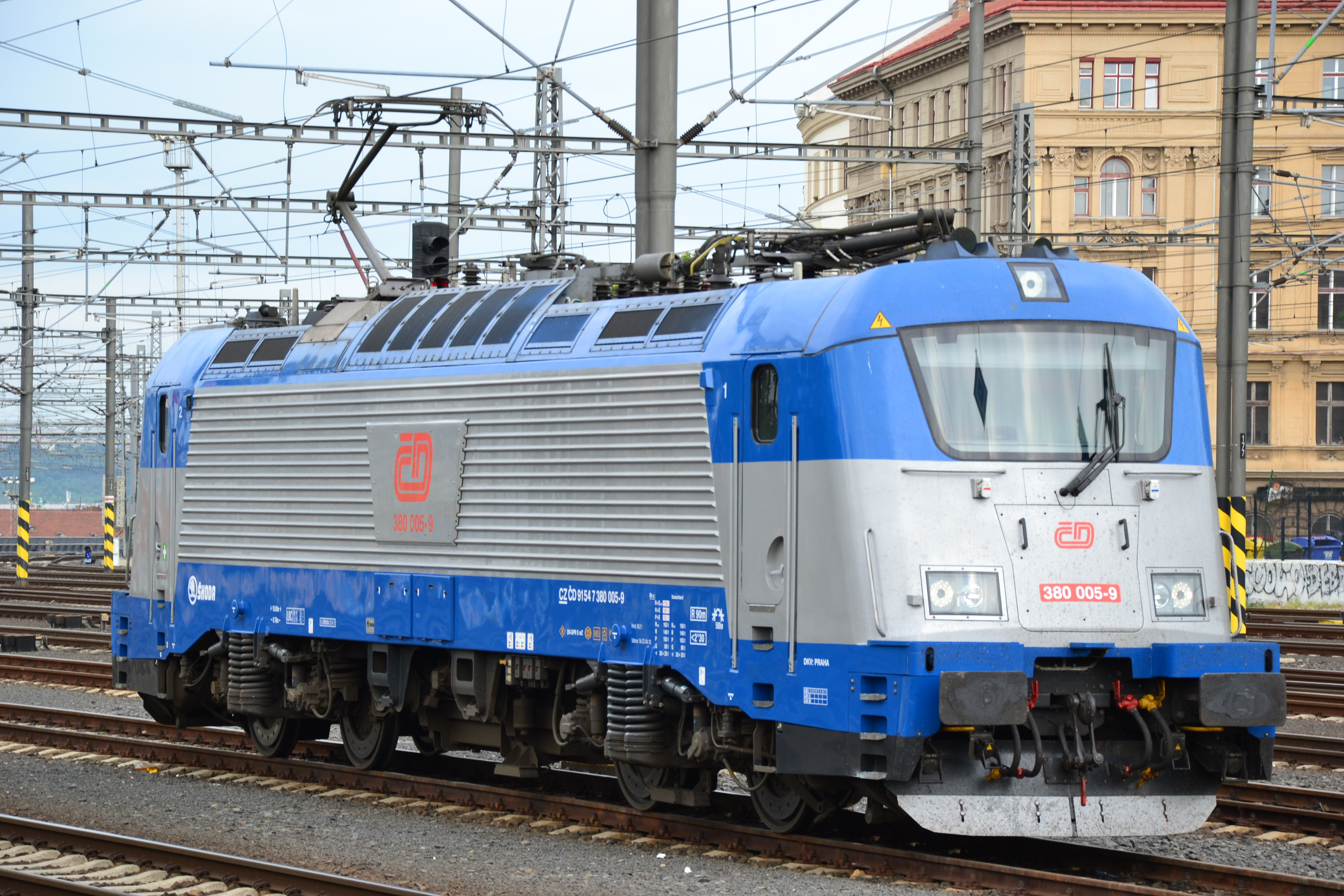 380 005-9 in Prague main railway station